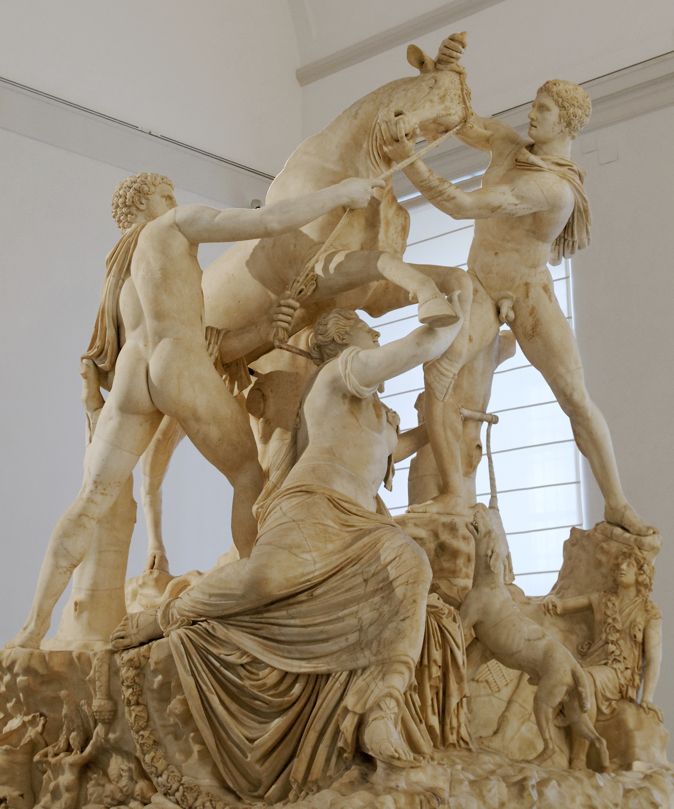 The death of Dirce. Roman adaptation of the Imperial era after a Greek original of the Early Hellenistic era; heavy modern restorations.